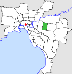 Location of the City of Box Hill within Melbourne.